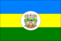 Flags of the city of São Pedro das Missões, Rio Grande do Sul, Brazil.